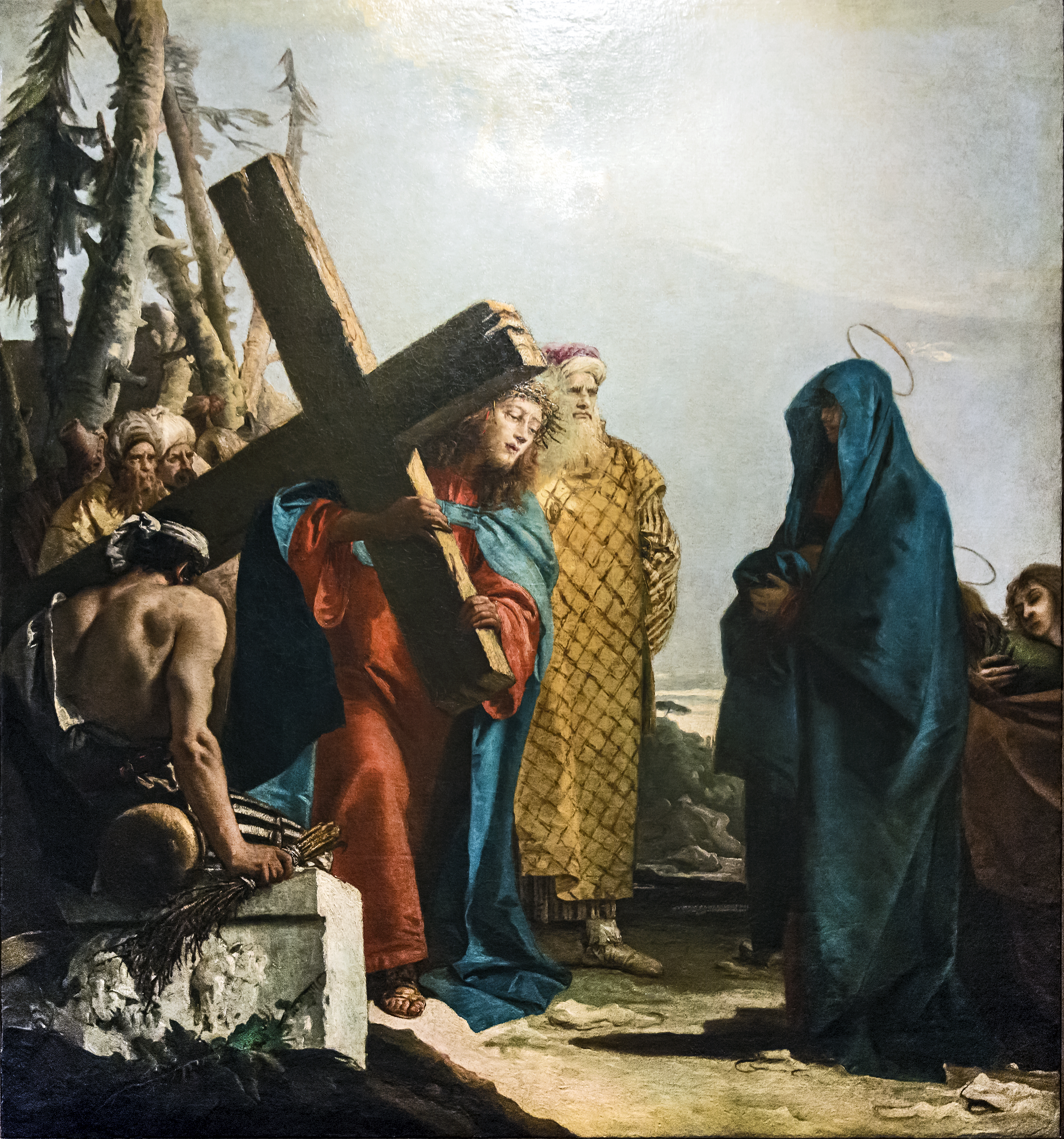 San Polo (church) - Oratory of the Crucifix - VIA CRUCIS IV - Jesus meets his mother by Giandomenico Tiepolo. Oil on canvas (1745 -1749).